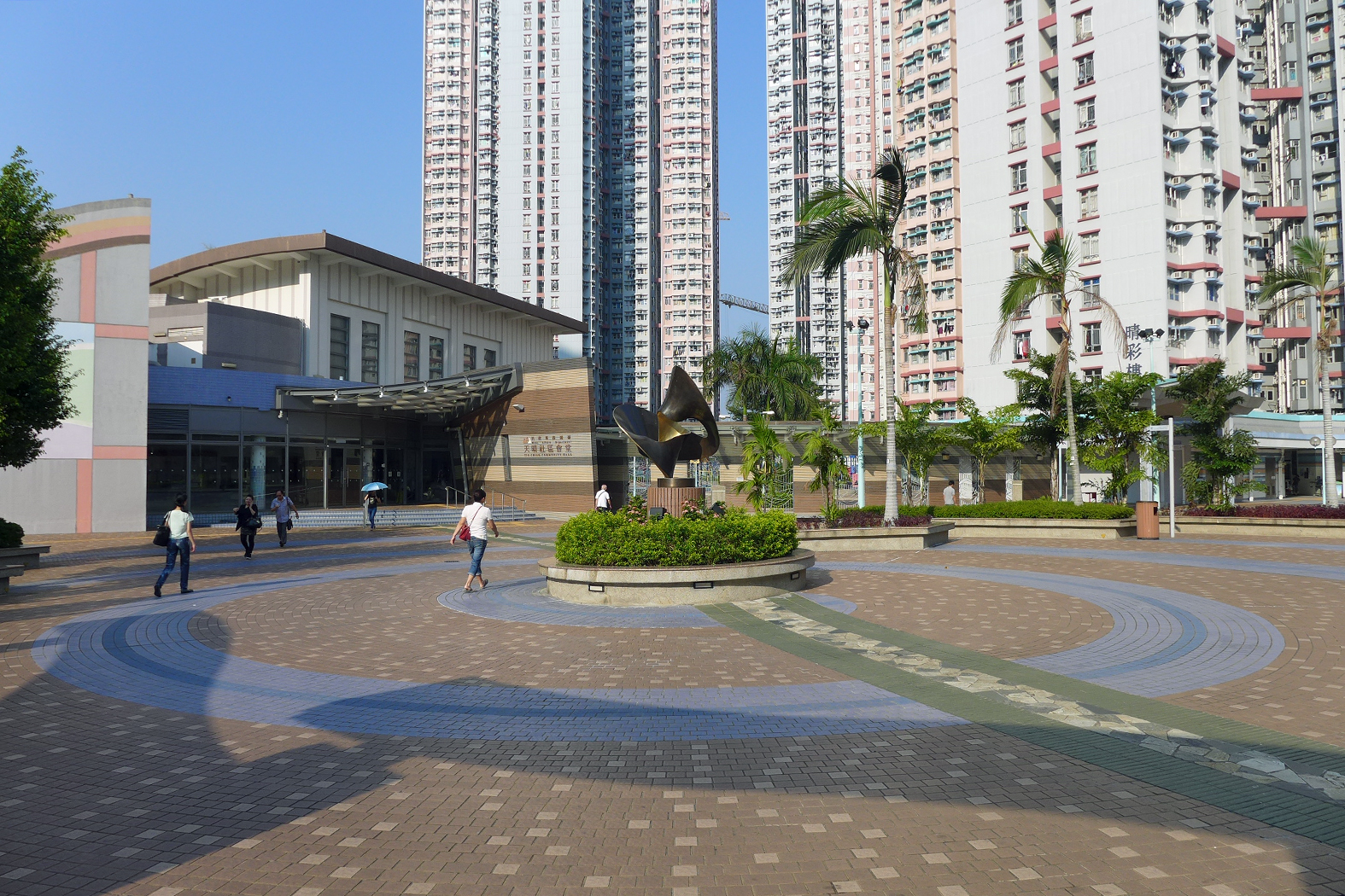 Tin Ching Estate Entry Plaza